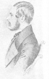 Nikolay Martynov, who killed Milhail Lermontov in a duel